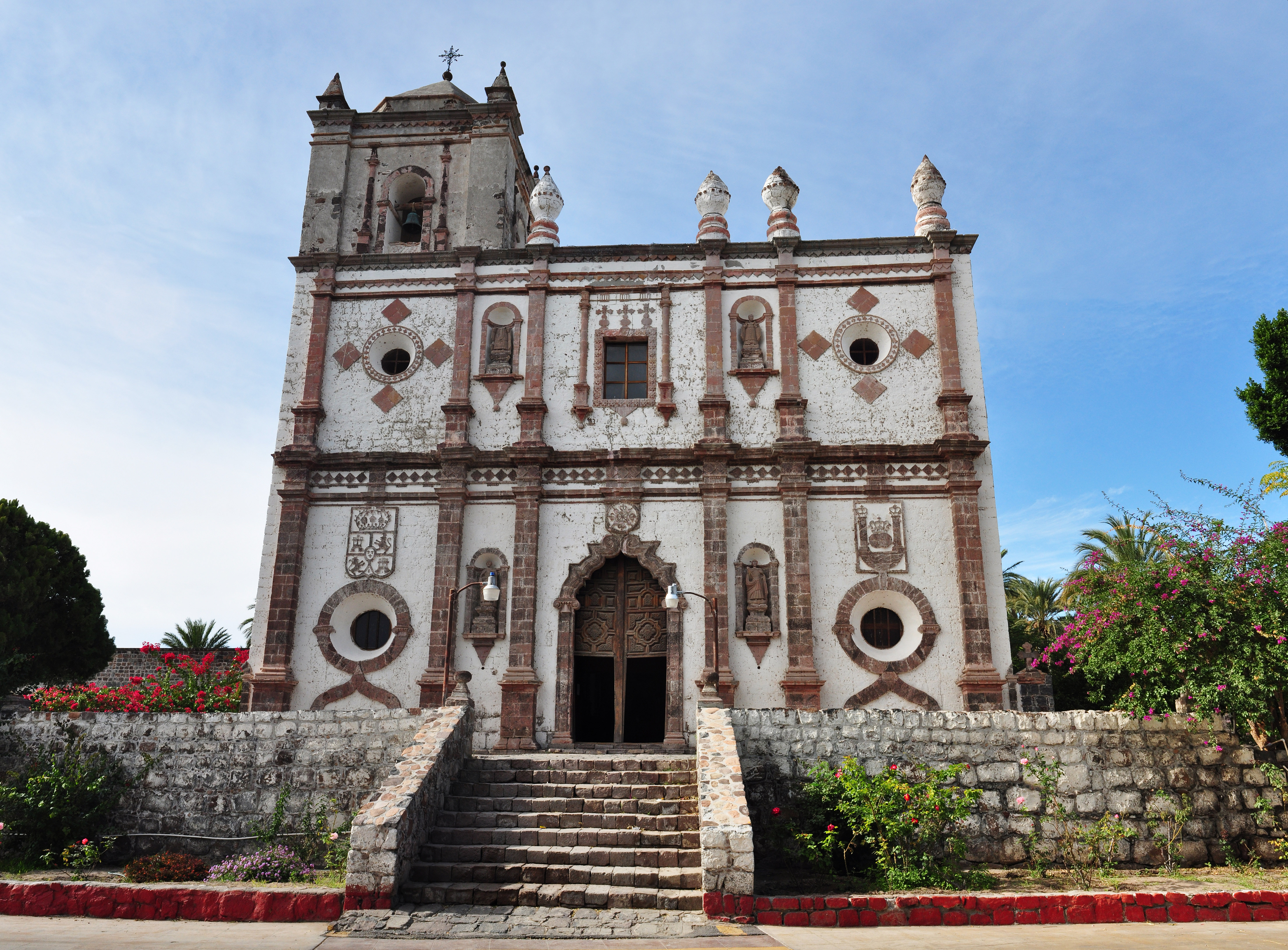 Baroque stone facade of Misión San Ignacio Kadakaamán — a 1786 Spanish mission in Baja California, central Baja California Peninsula, México. Located in San Ignacio, an oasis village in Mulegé Municipality, northern Baja California Sur state. In December 2009. Photo by Gregg M. Erickson.